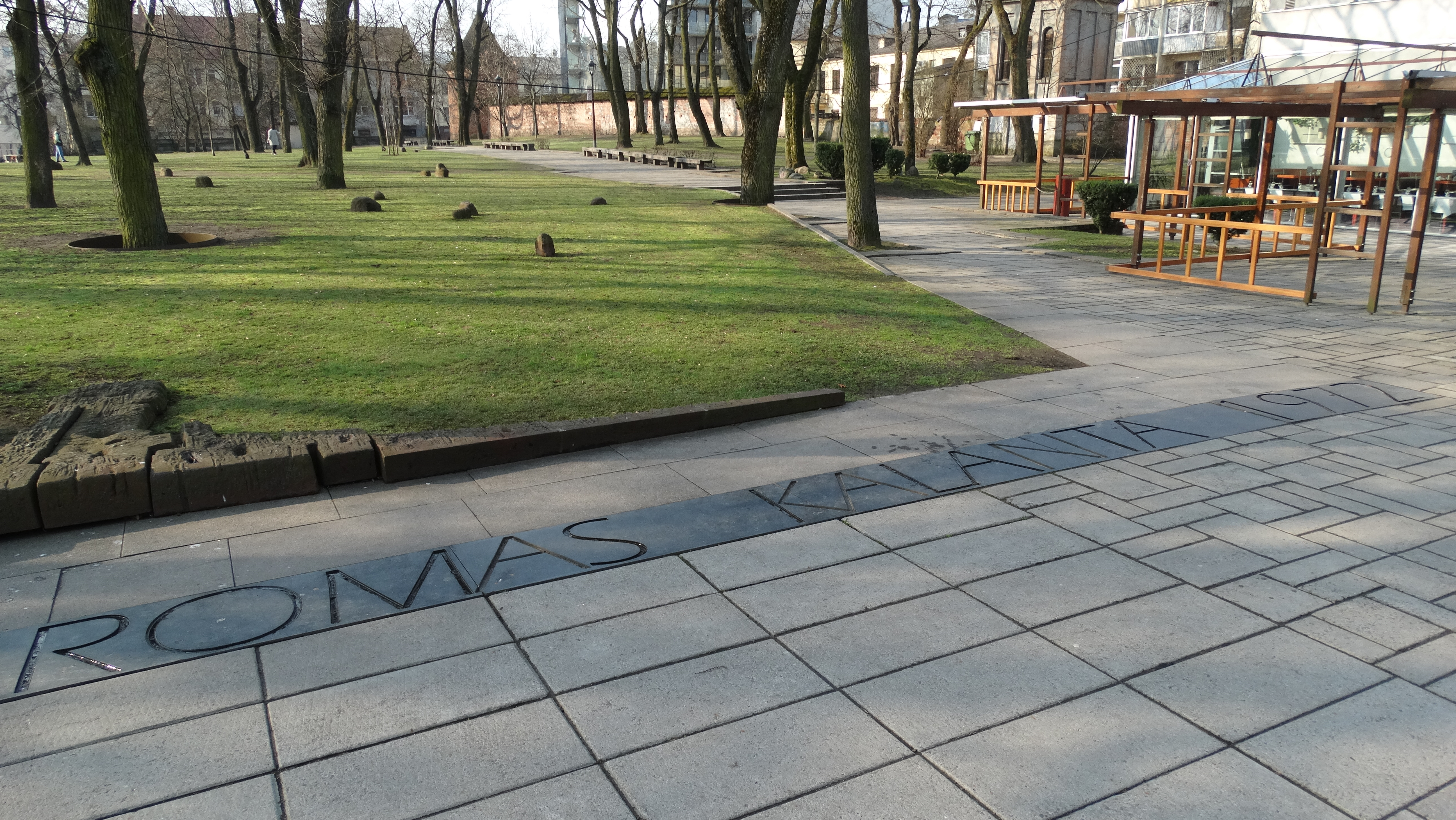 Memorial inscription to dissident Romas Kalanta, Laisvės Alėja, Kaunas, Lithuania